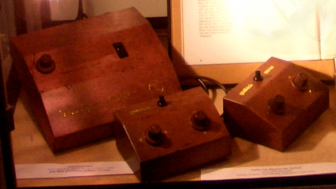 The game console VideoSport MK2 released by Henry's (sell TV and hi-fi in United Kingdom) in 1974 Cropped from Video Games History Exhibition Camera: Casio EX-Z55 License on Flickr (2011-02-07): CC-BY-2.0